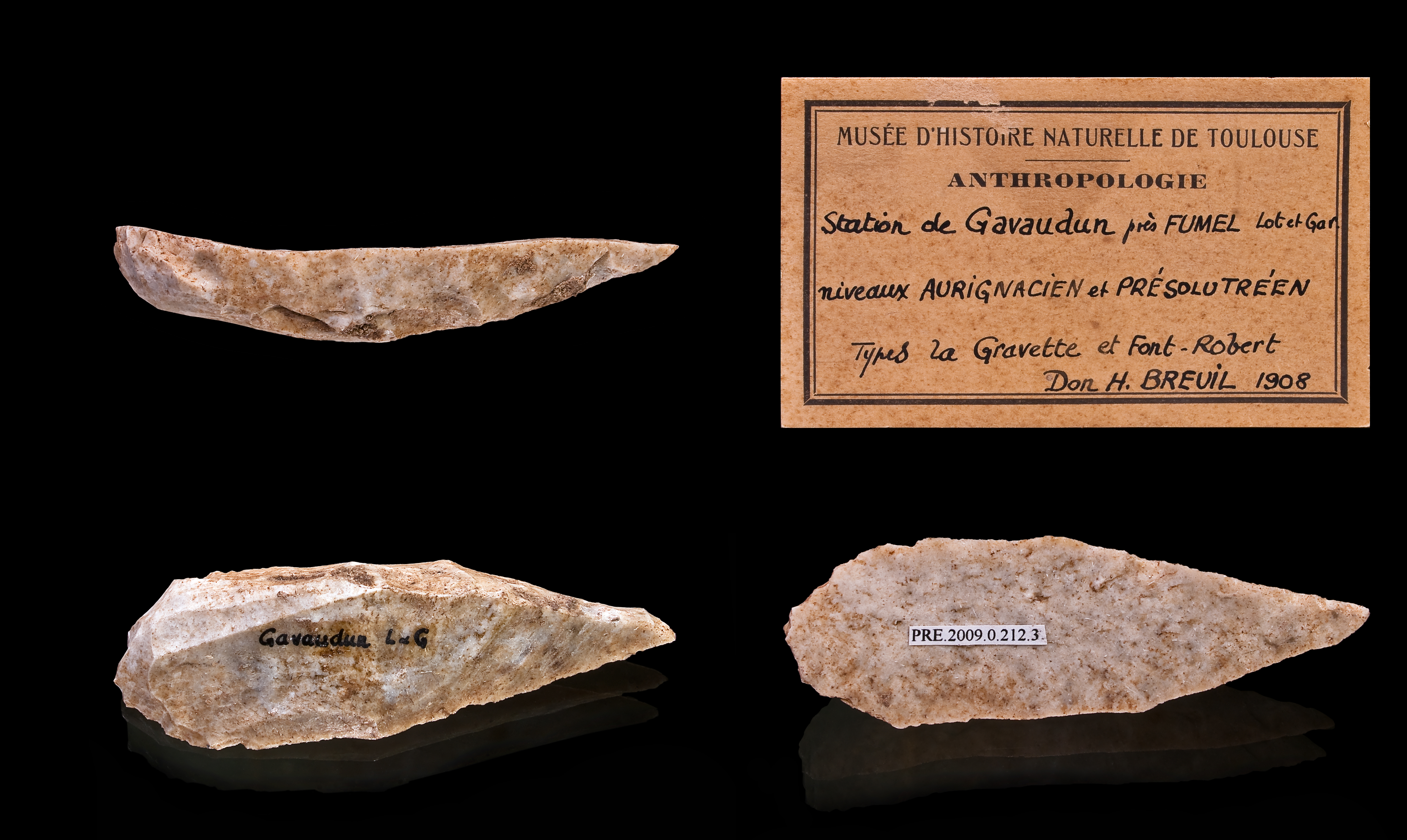 scraper